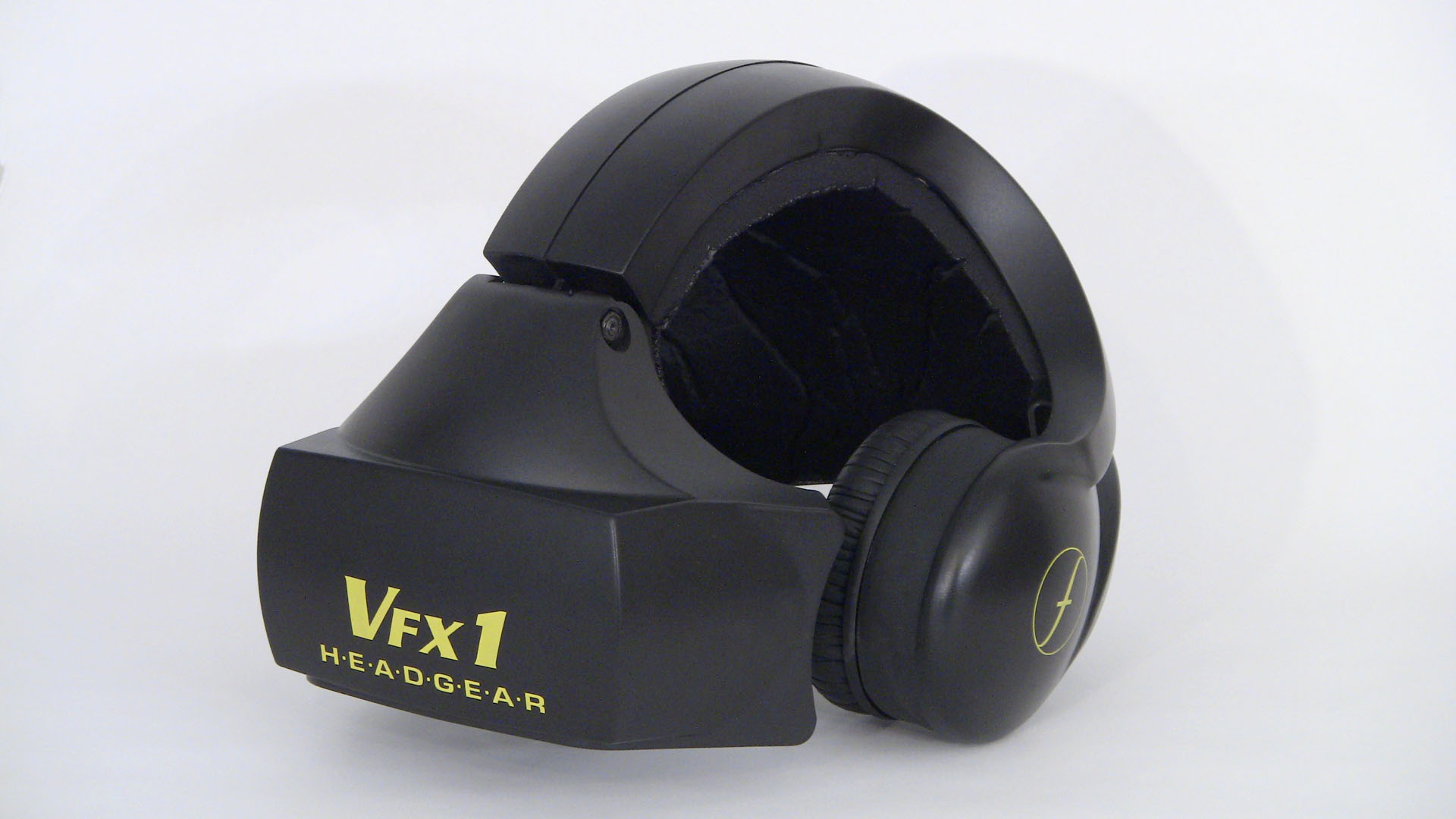 Photograph of Forte VFX1 Virtual Reality Headgear